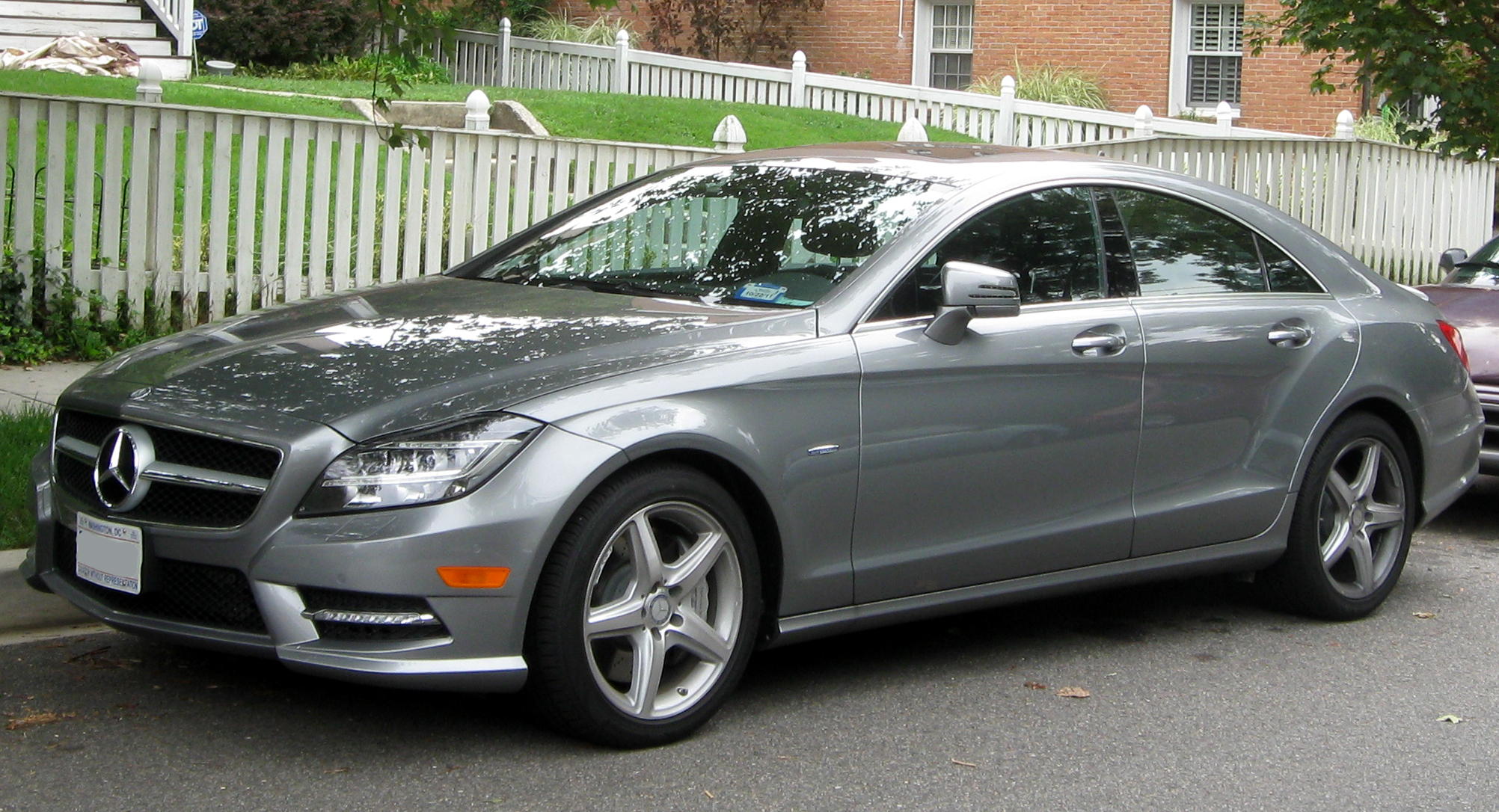 2012 Mercedes-Benz CLS550 photographed in Washington, D.C., USA.